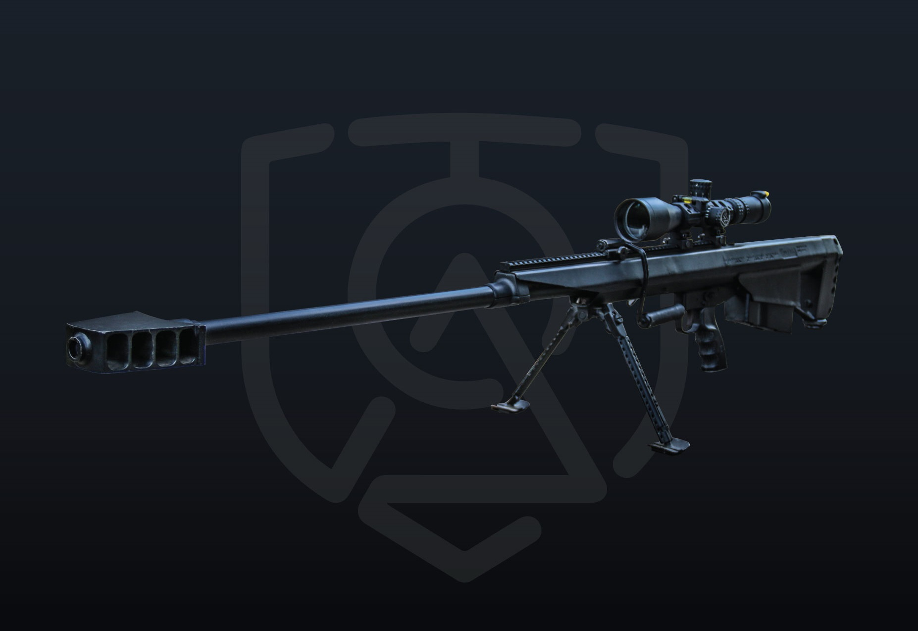 georgian made Anti-materiel rifle Amr-mod-1